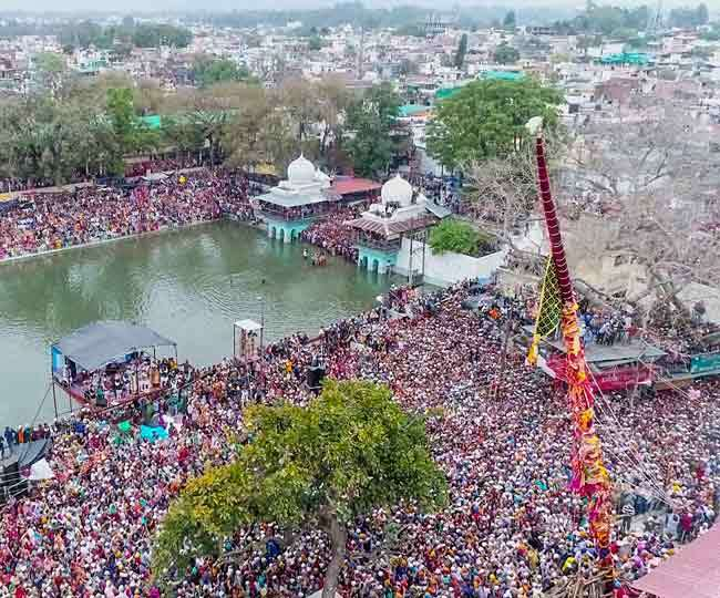 This fair begins on the fifth day of Chaitra (fifth day from the Holi), the birthday of Shri Guru Ram Rai Ji. Besides being the birthday of Guru Maharaj, it is also considered as the day of his arrival at Doon. In Samvat 1733(1676 AD) on that very day, the great occasion was celebrated in his honour and since then the Jhanda Ji is hoisted on that day every year to commemorate his sacred memory.